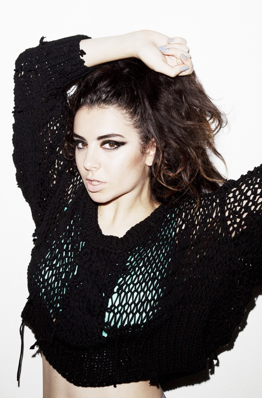 British singer Charli XCX